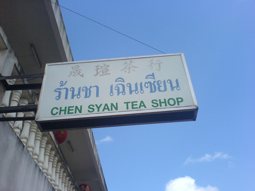 Tea Shop at Mae Salong–in Chinese, Thai and English